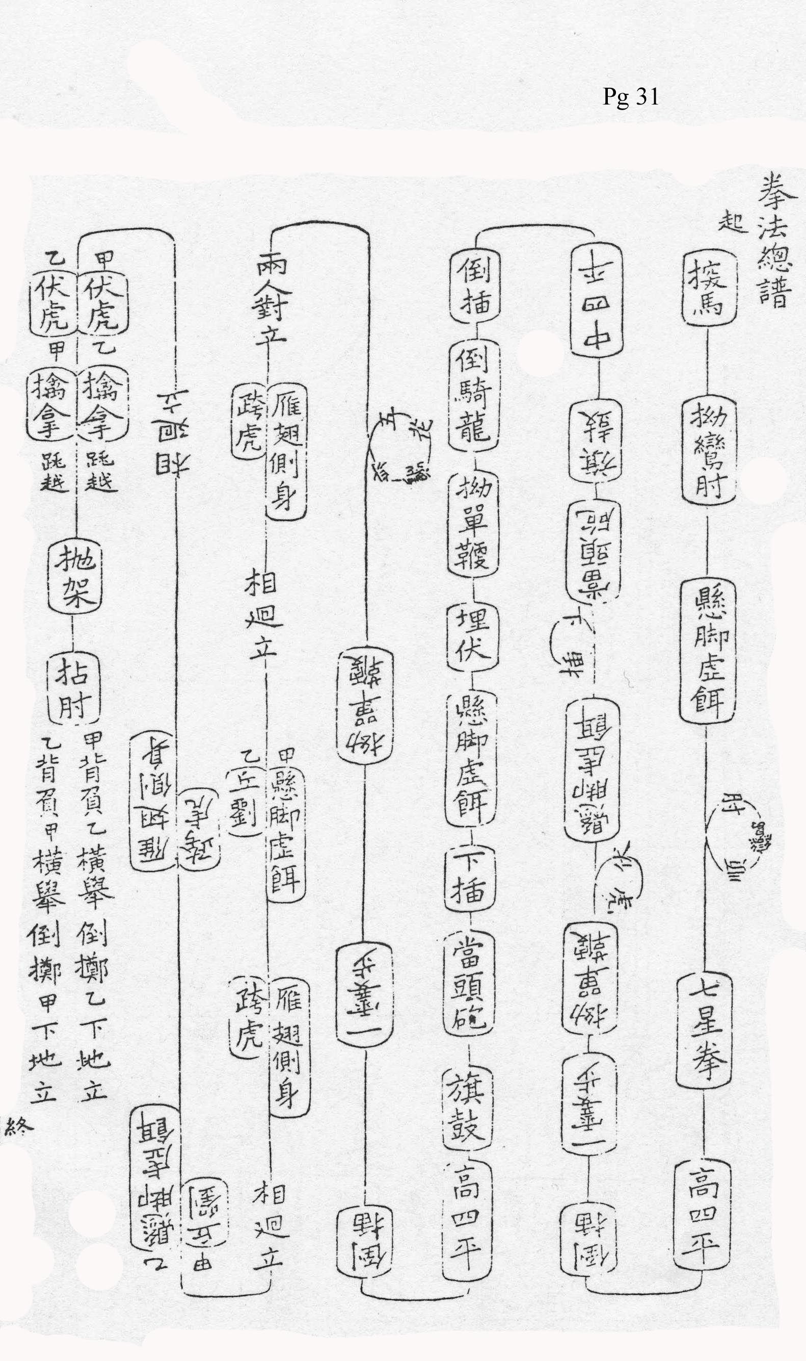 30th Page of Commentary and Illustrations